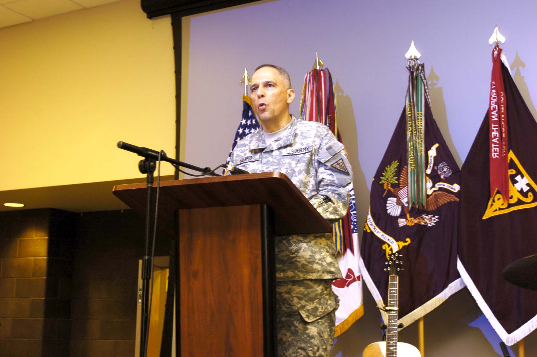 â€œWe gather here today to remember and honor those who gave the ultimate sacrifice and to commemorate the eighth annual observation of Patriot Day,â€? said Maj. Gen. Dean Sienko, commander, 3rd Medical Command Deployment Support (MDSC) at the Fort Gillem Patriot Day Ceremony Sept. 11.